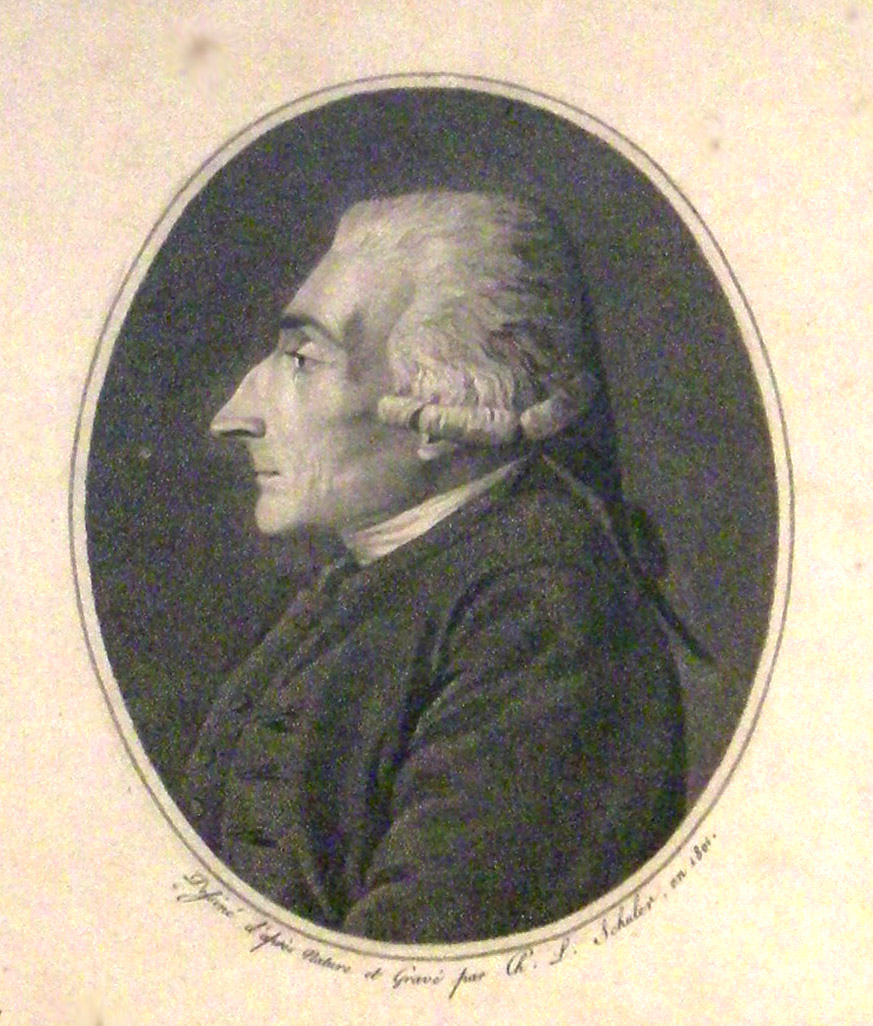 Portrait of French archaeologist Jérémie-Jacques Oberlin